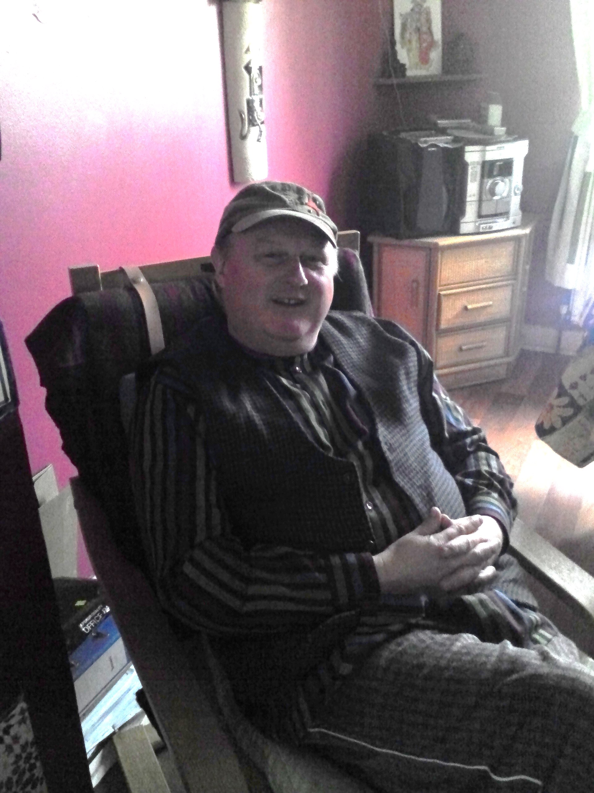 By the hearth in Mín a' Leá